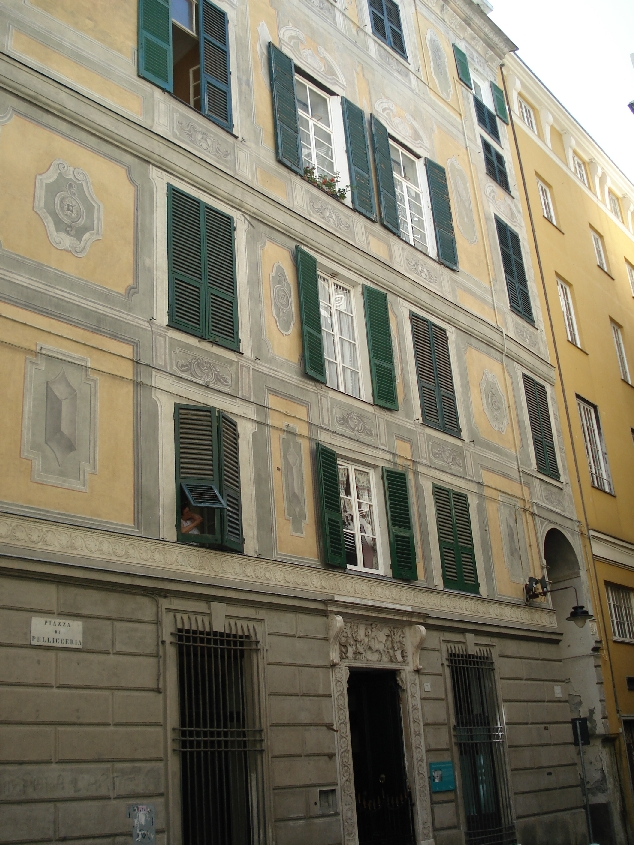 Palazzo Spinola di San Luca — facade with window shutters, in Genoa. Pietro Spinola di San Luca Palazzo (palace).